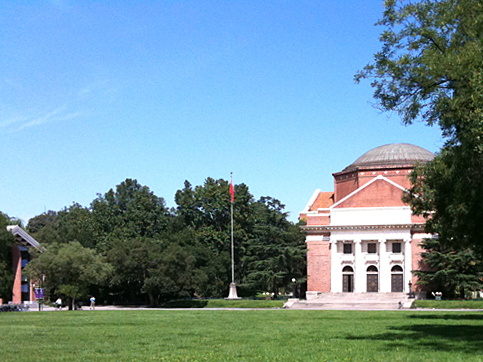 Tsinghua University's Grand Auditorium, Beijing, China.